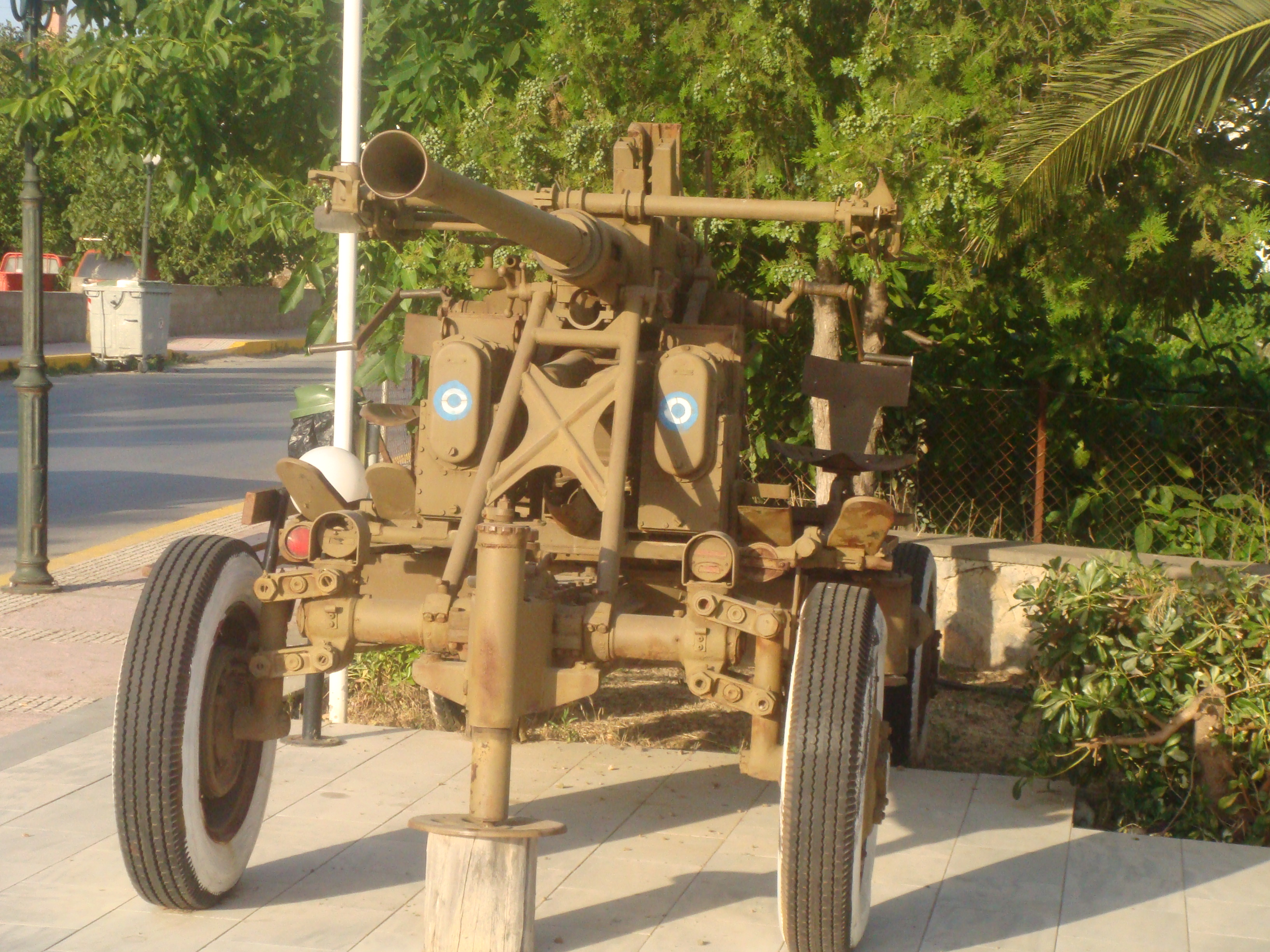 Bofors A/A gun from war years in Greece, in Kastelli, Iraklion prefecture.